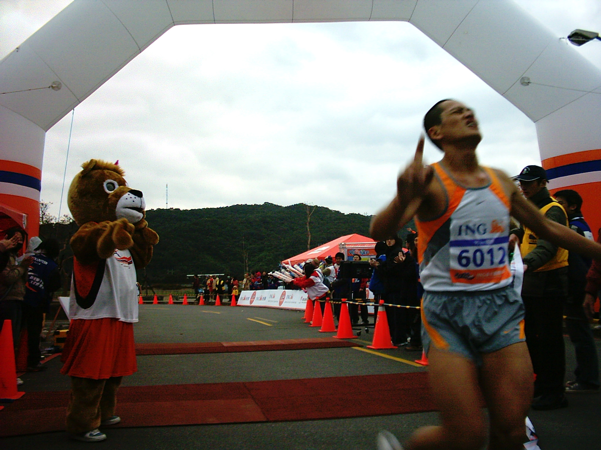 The Finish Line of 10k Group at 2006 ING the 10th Taipei International Marathon.